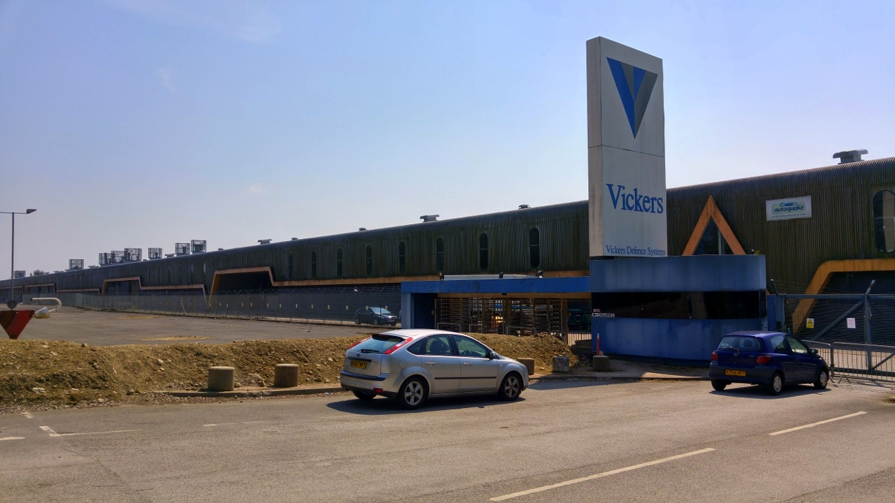 Vickers Tank Factory, Crossgates, Leeds